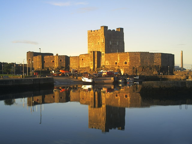 Carrickfergus Castle, reflections at sunset View of castle and inner harbour from the Marina and Premier Inn.